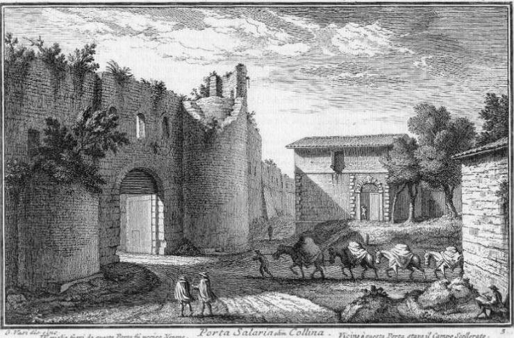 1) Porta Salaria; 2) Column of Porta Pia; 3) Horti Sallustiani; 4) Villa Paolina.